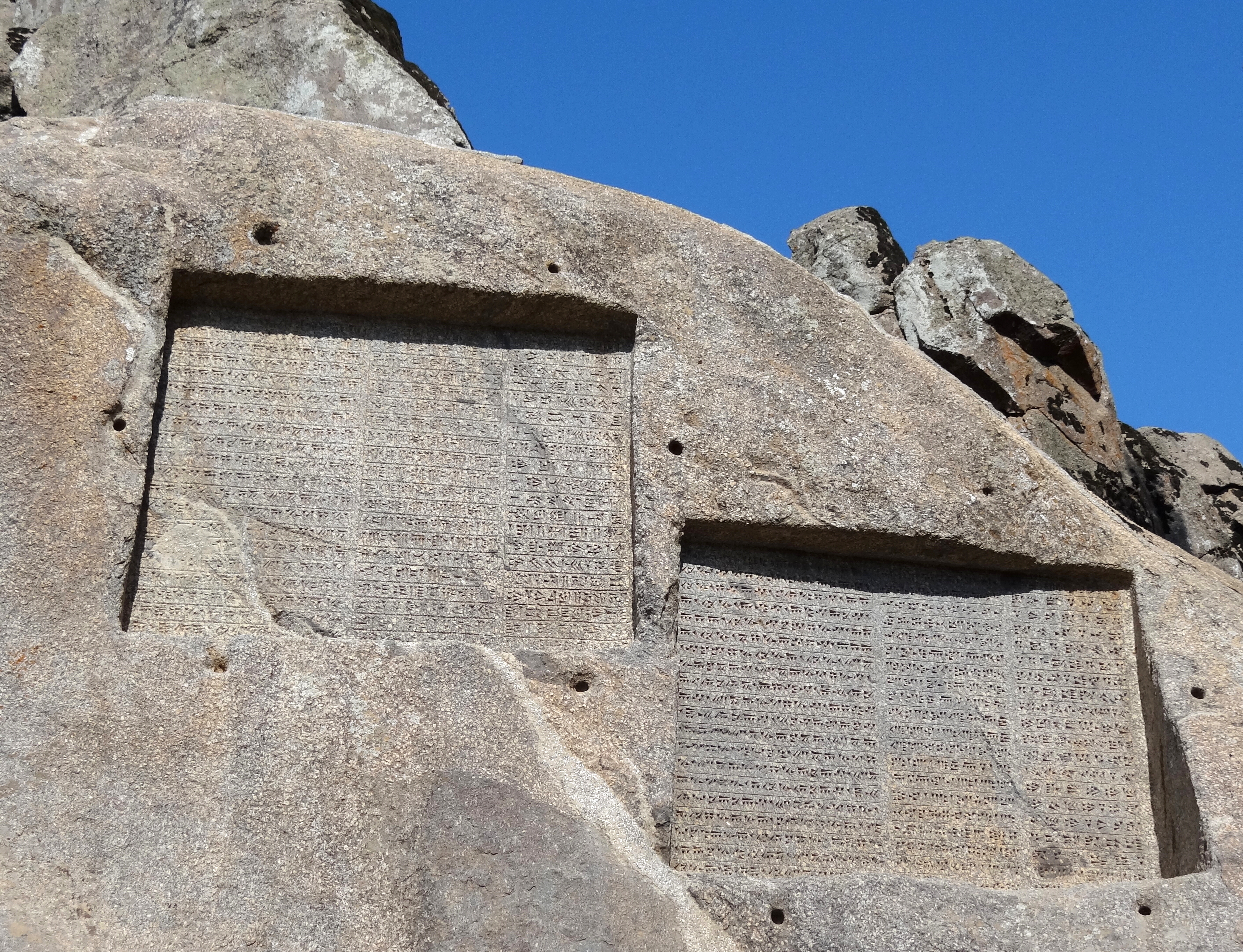 Cuneiform Inscriptions of Darius and Xerxes - Ganjnameh - Outside Hamadan - Western Iran